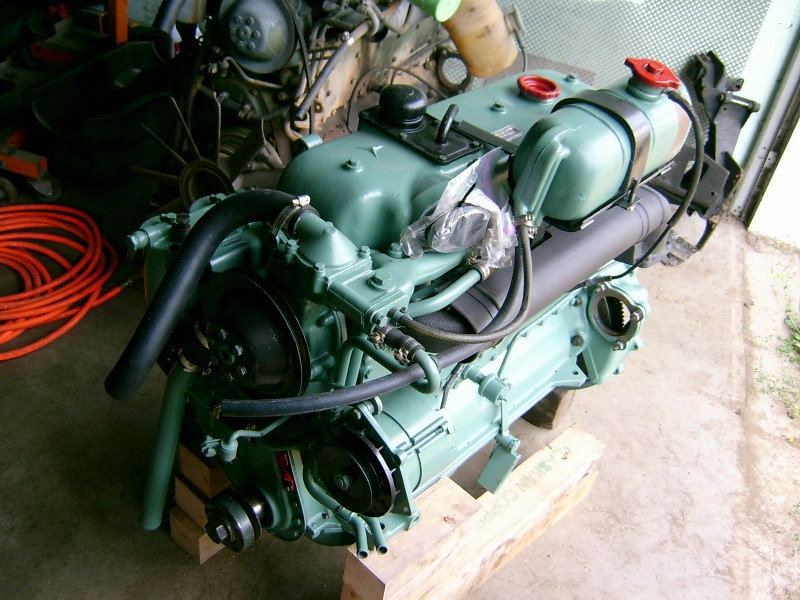 OM 353